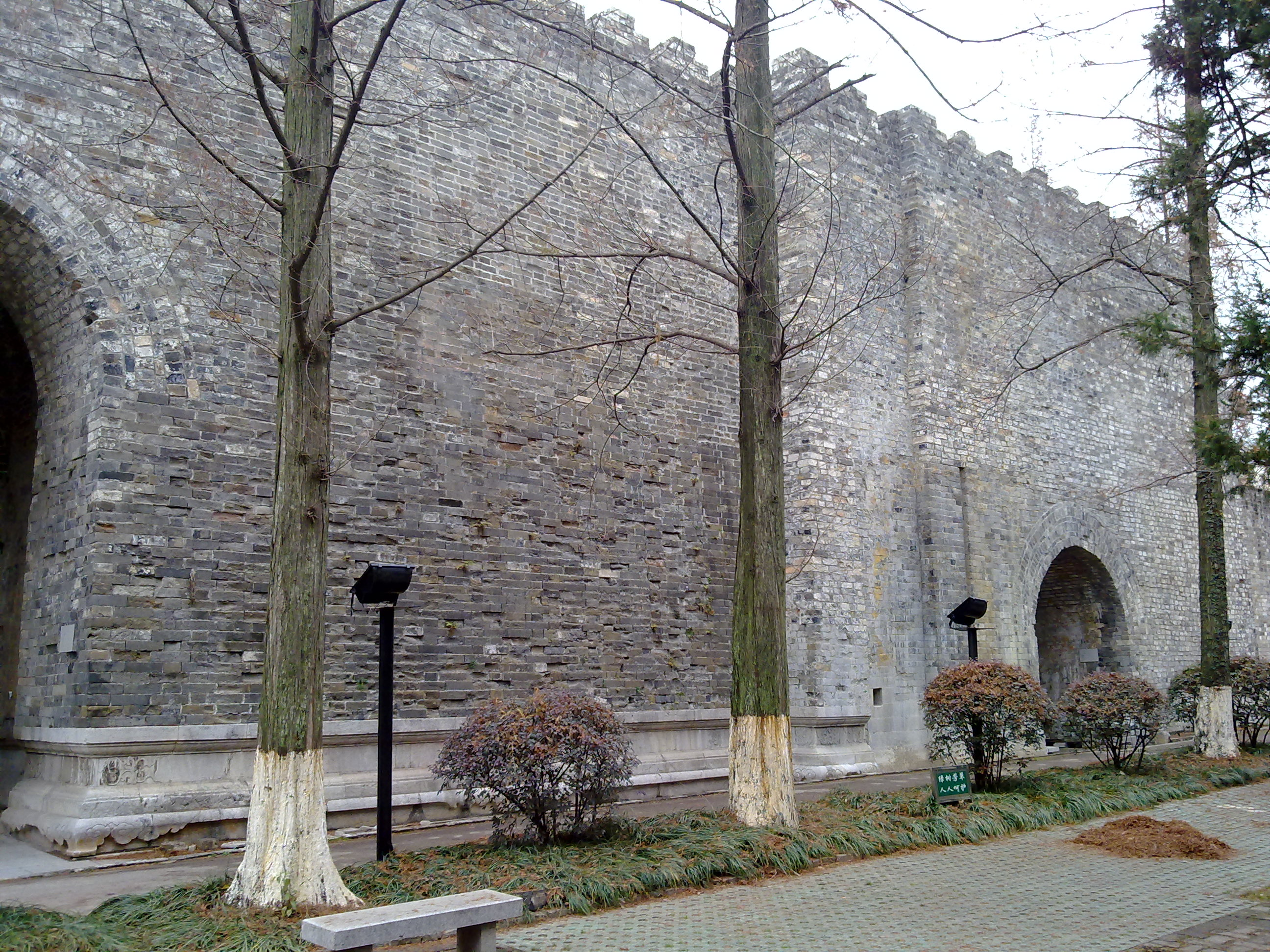 Wumen Gate of Nanjing Ming Palace